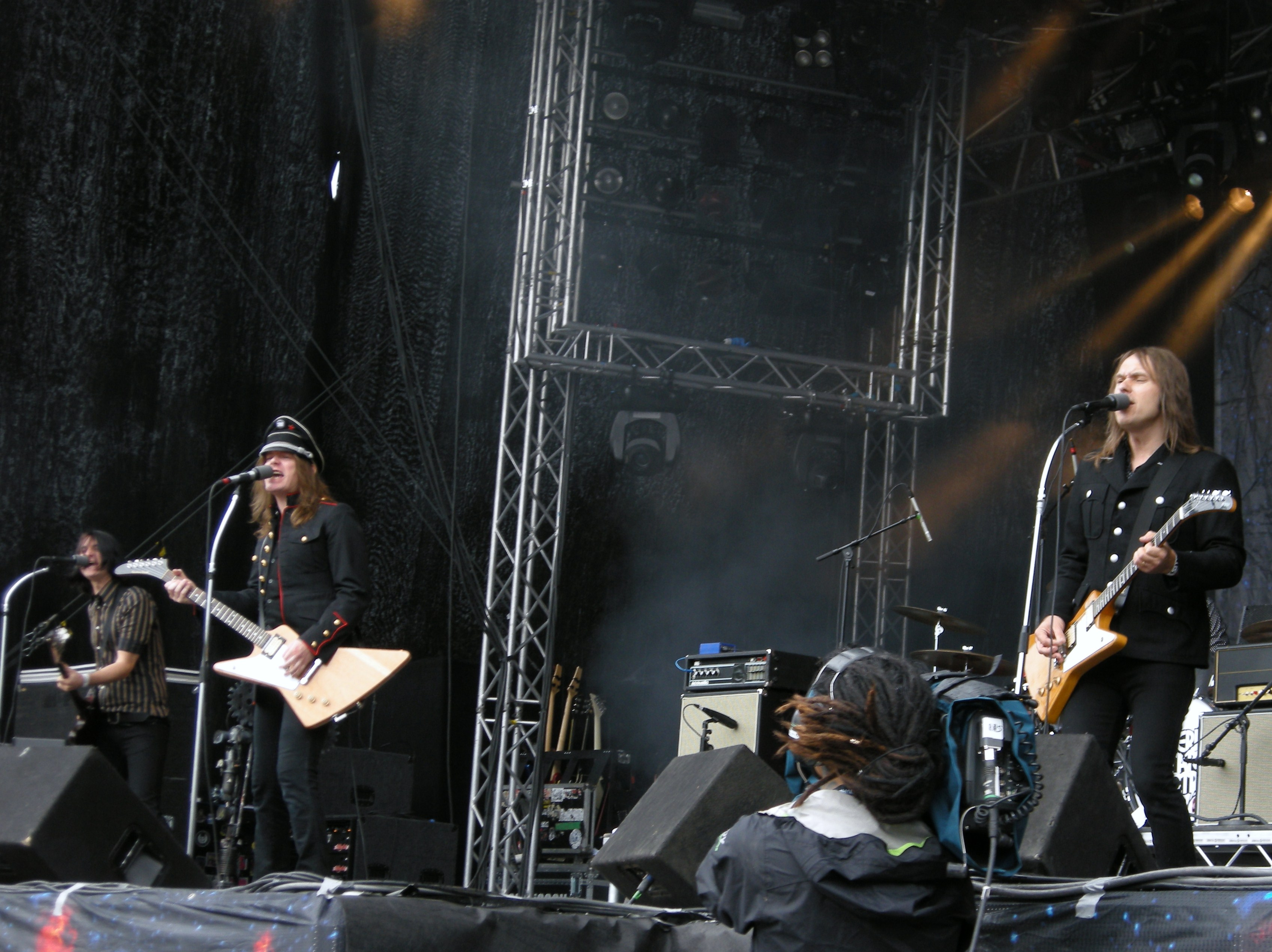 Imperial State Electric (Dolf de Borst, Nicke Andersson, Tobias Egge) at Sonisphere Festival, Stockholm Sweden 2010